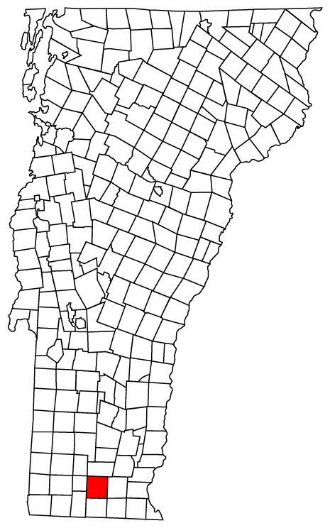 Map of Vermont towns with Wilmington highlighted